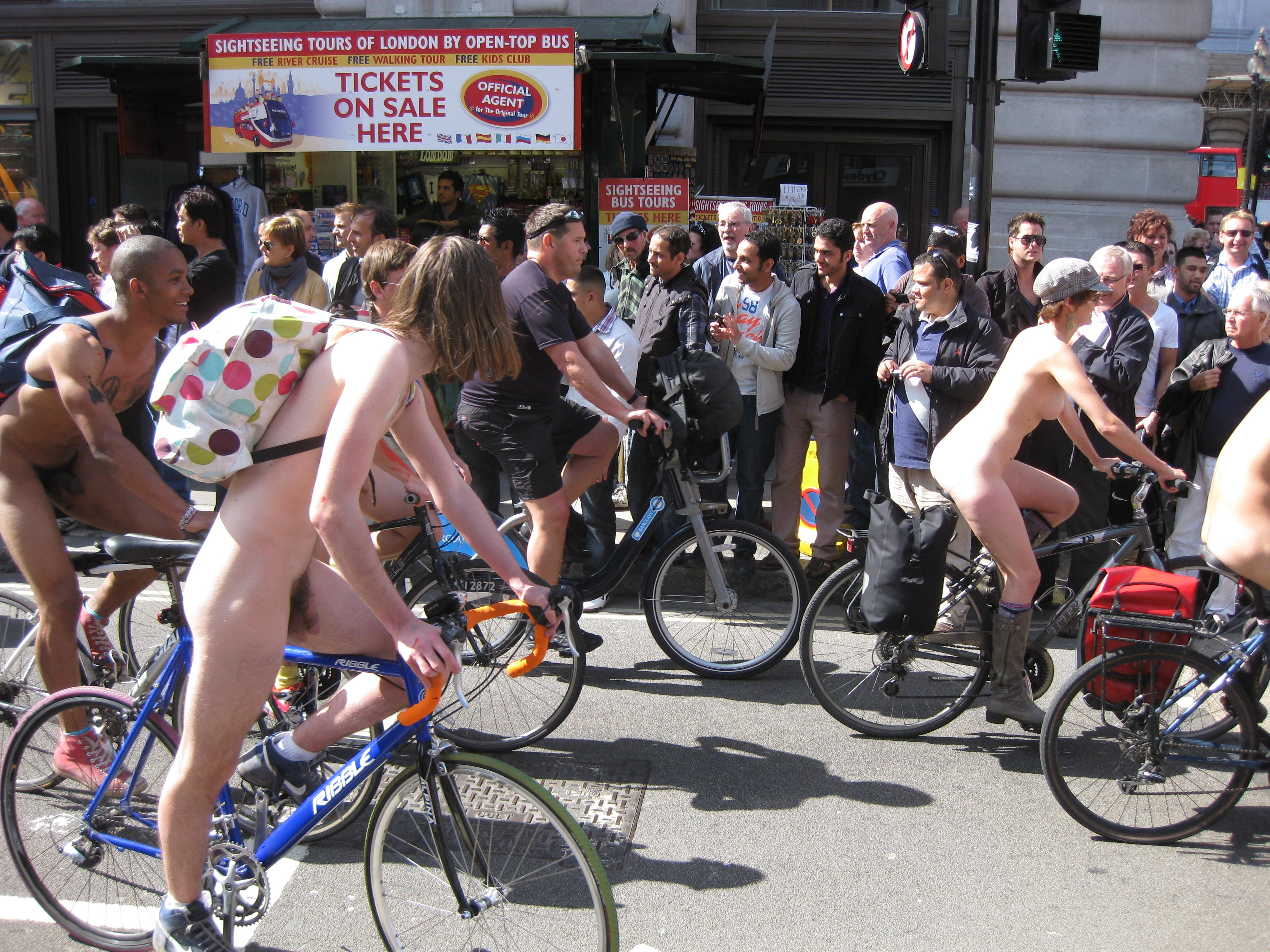 World Naked Bike Ride, London 2011